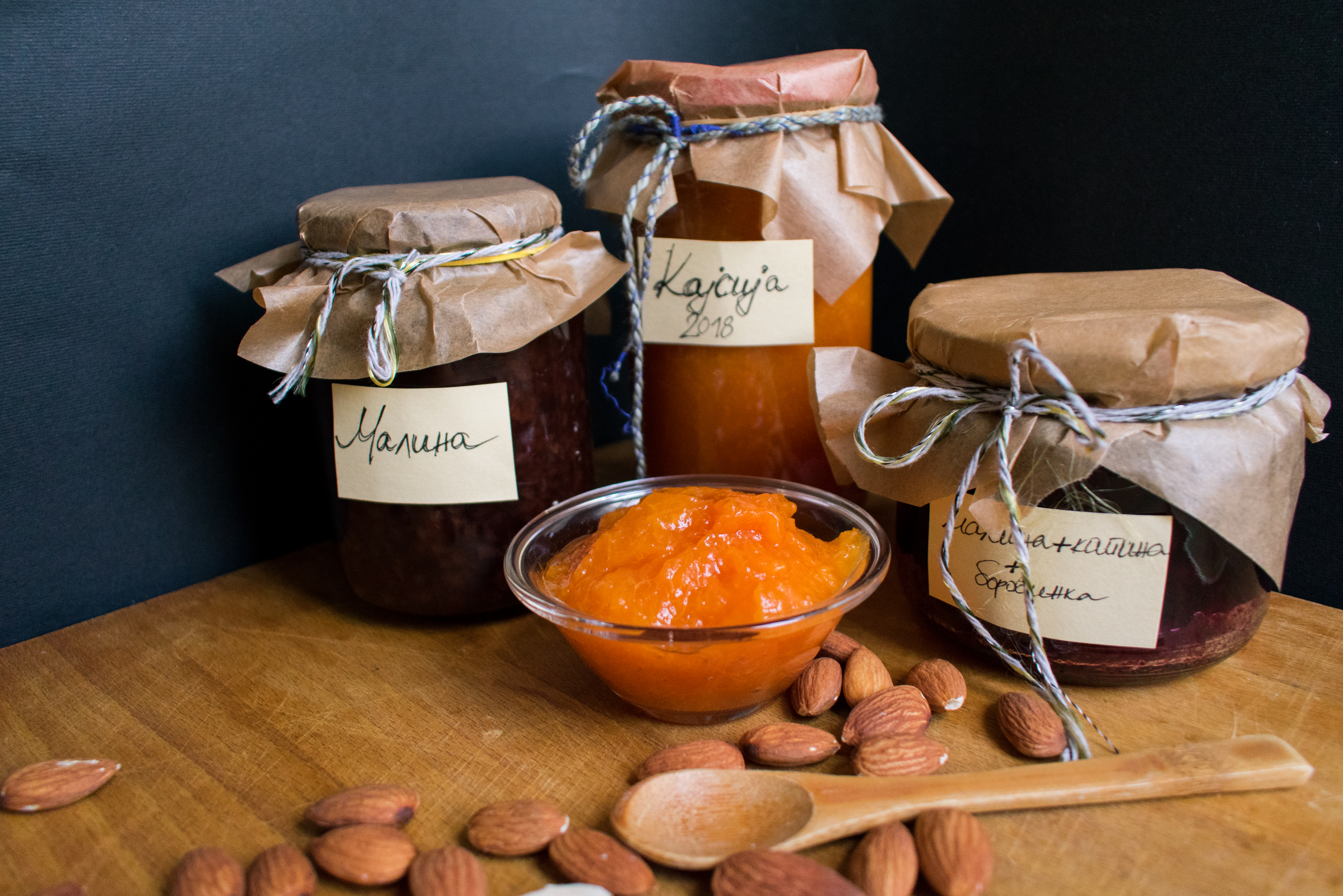 Three different types of homemade marmalade in jars (apricot marmalade, raspberry, mixed berries). Marmalade is sweet spread made from fruit, plain or mixed with other fruits.